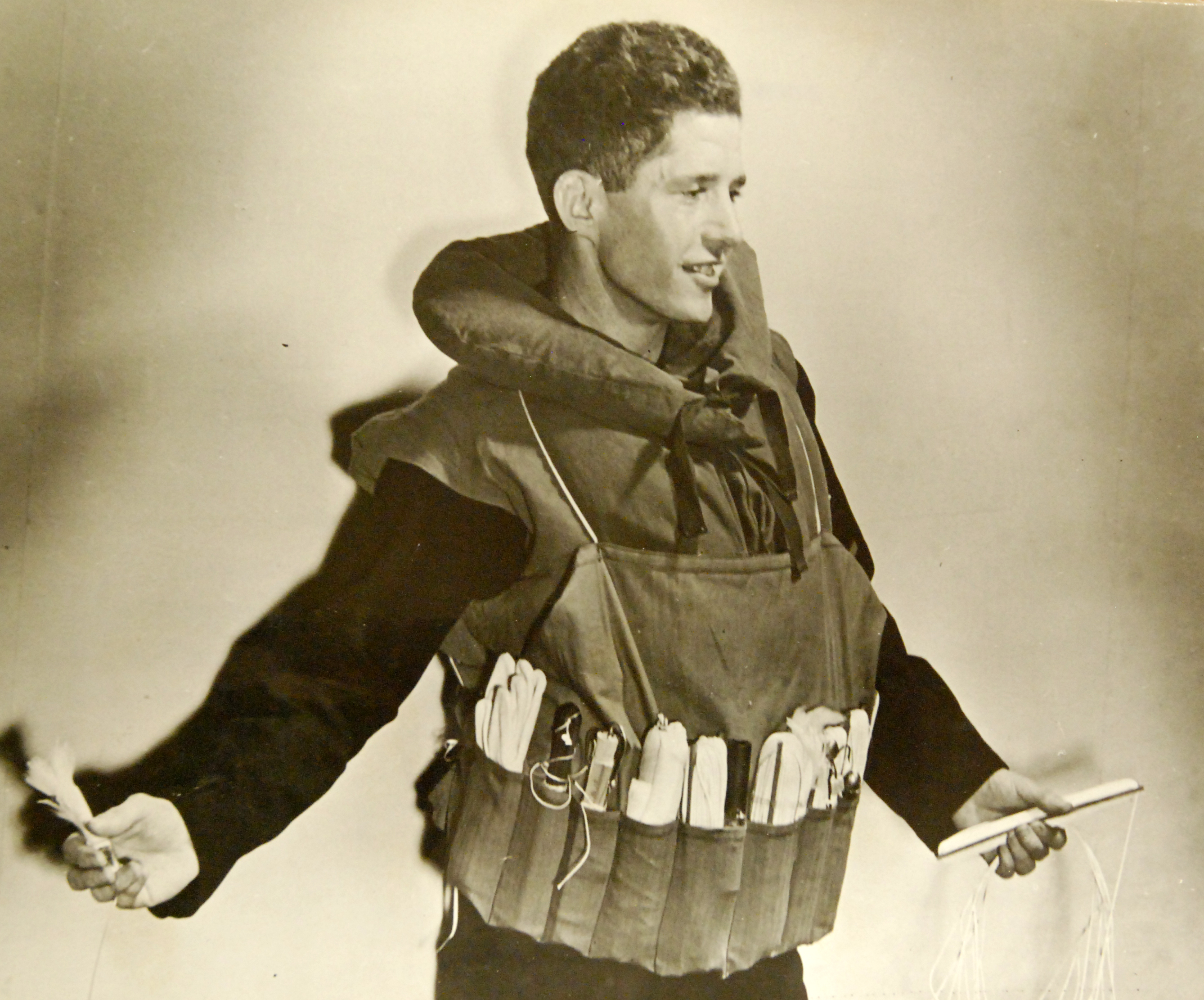 Lot-2058-8: Shopping for Victory with War Bonds. This is what one war bond buys. This is the celebrated fishing kit with which every Navy lifeboat is equipped. Experience of Eddie Rickenbacker and others showed how these kits could provide the means of saving lives at sea. The $18.75 that buys at $25 War Bond will pay for three of these kits. Office of War Information Photograph. Courtesy of the Library of Congress. (2018/06/01).